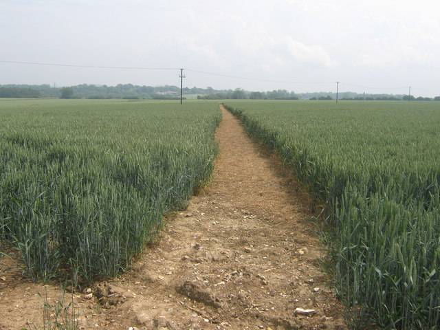 Footpath to Leaveland This path is from Loose Down Road, near Bells Forstal, heading to a bridleway heading to Leaveland.